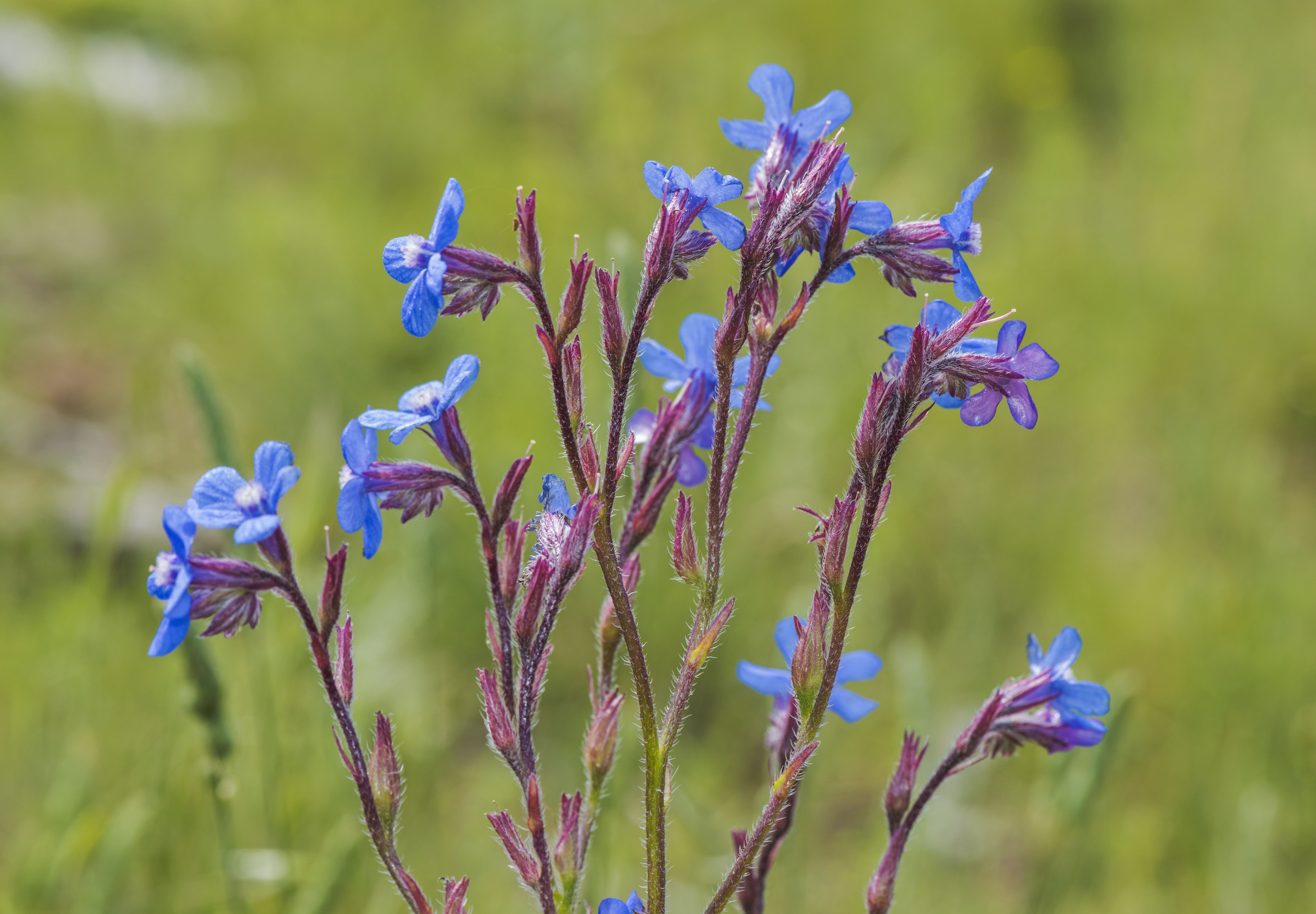 Anchusa azurea (Italian bugloss).